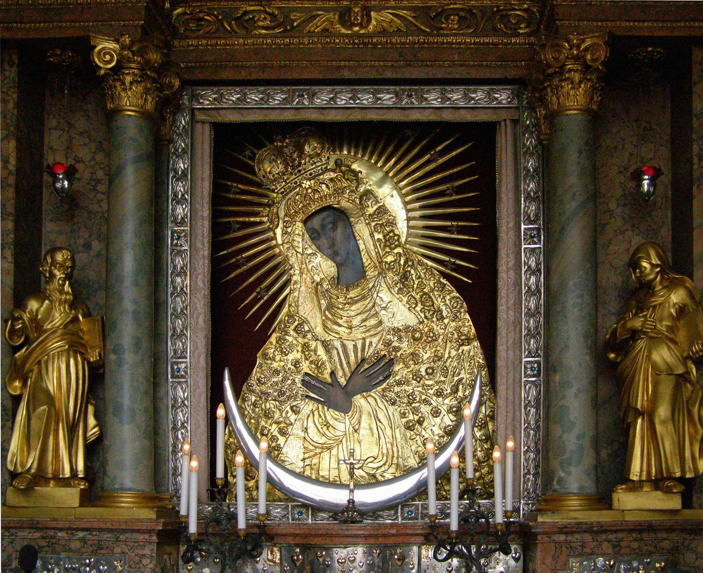 Our Lady of the Gate of Dawn